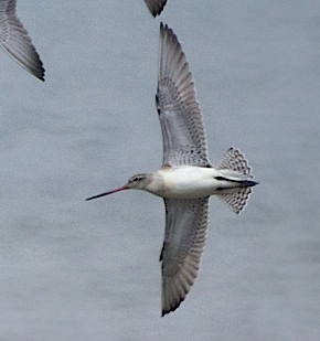 Bar-tailed Godwits in flight over Whitley Bay, Sandbanks, Poole harbour.